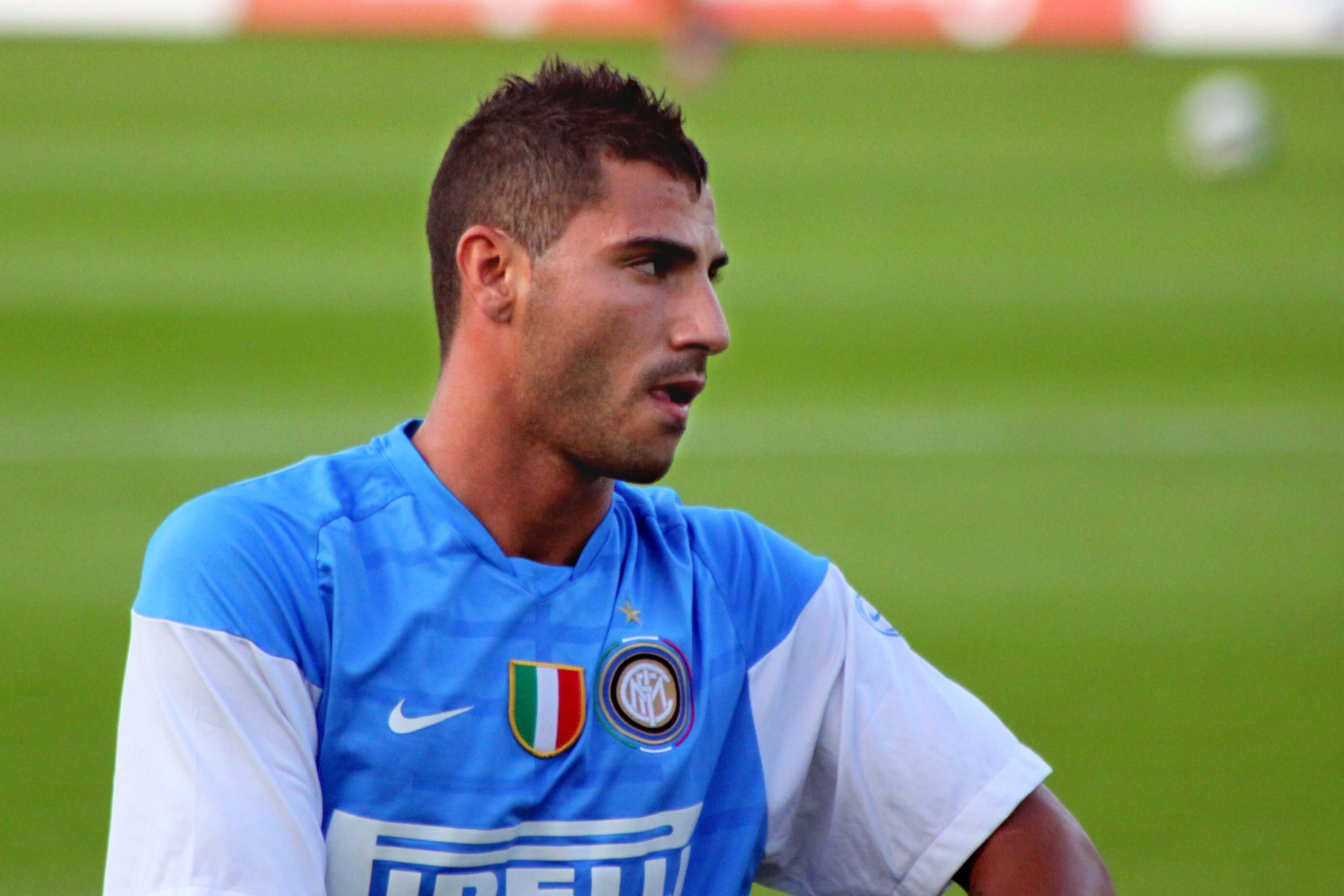 Ricardo Quaresma - F.C. Internazionale Milano.